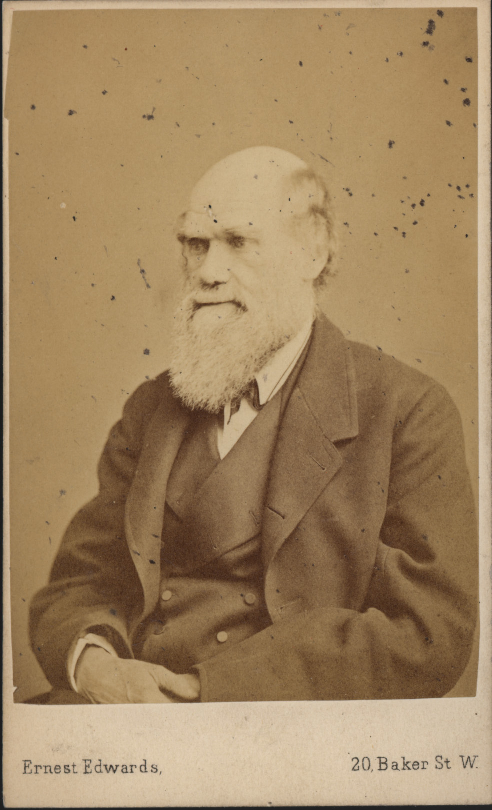 Creator/Photographer: Ernest Edwards, London. (Photographic company) Medium: Medium unknown Date: prior to 1882 Collection: Scientific Identity: Portraits from the Dibner Library of the History of Science and Technology - As a supplement to the Dibner Library for the History of Science and Technology's collection of written works by scientists, engineers, natural philosophers, and inventors, the library also has a collection of thousands of portraits of these individuals. The portraits come in a variety of formats: drawings, woodcuts, engravings, paintings, and photographs, all collected by donor Bern Dibner. Presented here are a few photos from the collection, from the late 19th and early 20th century. Repository: Smithsonian Institution Libraries Accession number: SIL14-D1-09